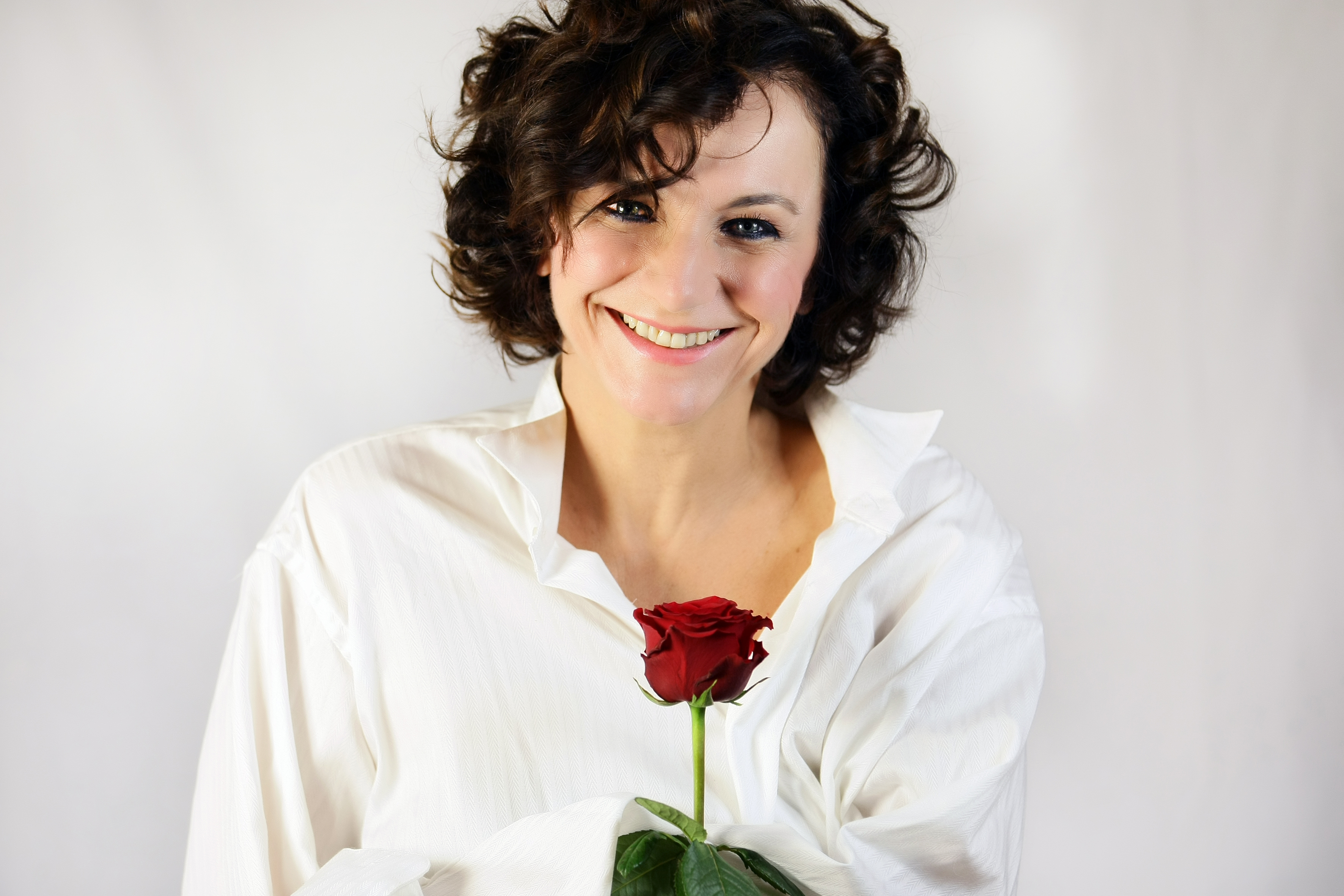 Gabriele Deutsch Austrian actress